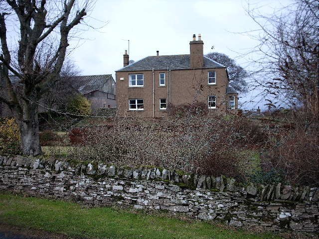 Kincriech Farmhouse,Gateside,near Forfar.